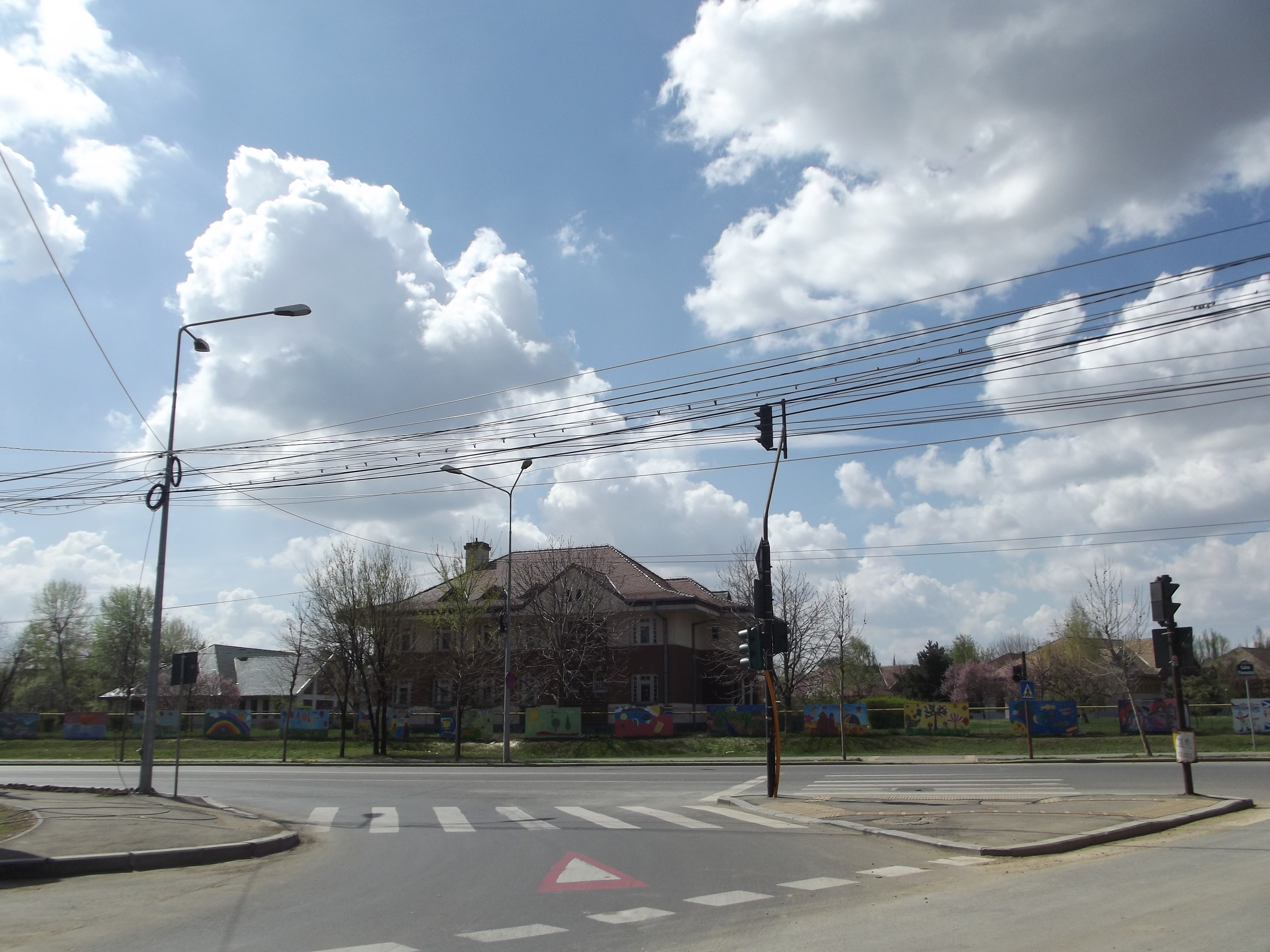 SOS Children's Village Houses near Floreasca lake